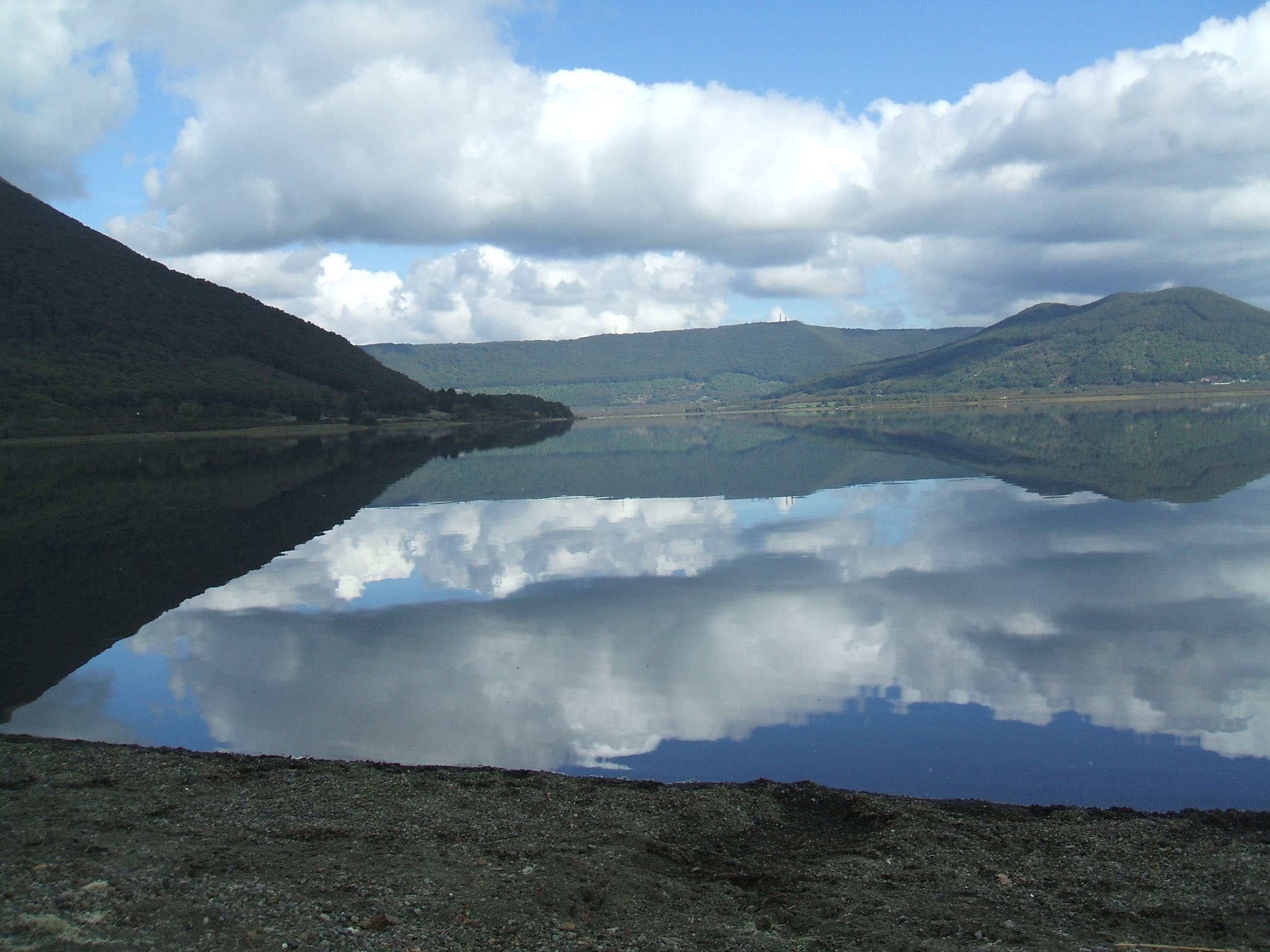 october 2008